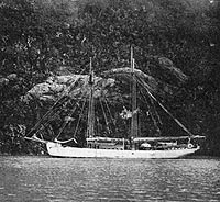 Yacht Mana, 1914, Easter Island